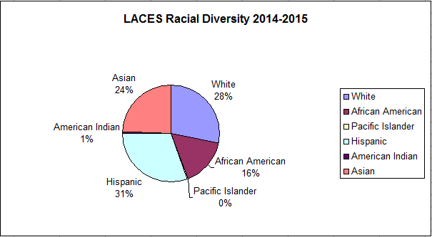 Racial diversity in the 2014-2015 school year.